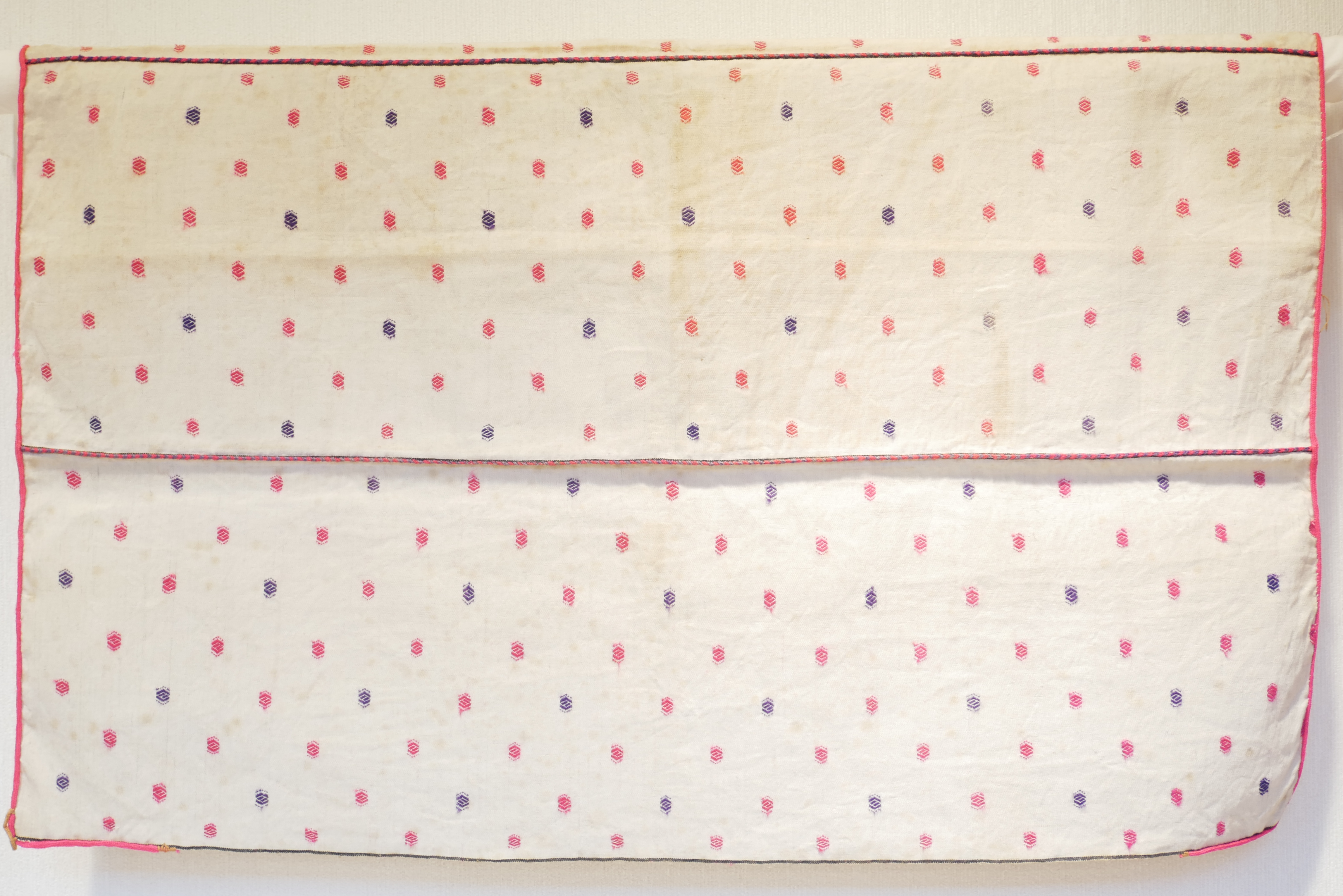 太魯閣族披風（昭和六年（1931年）11月20日入藏臺北帝國大學），臺北市大安區學府次分區學府里